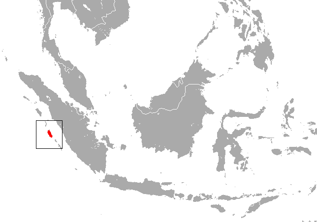 Siberut Macaque (Macaca siberu) range